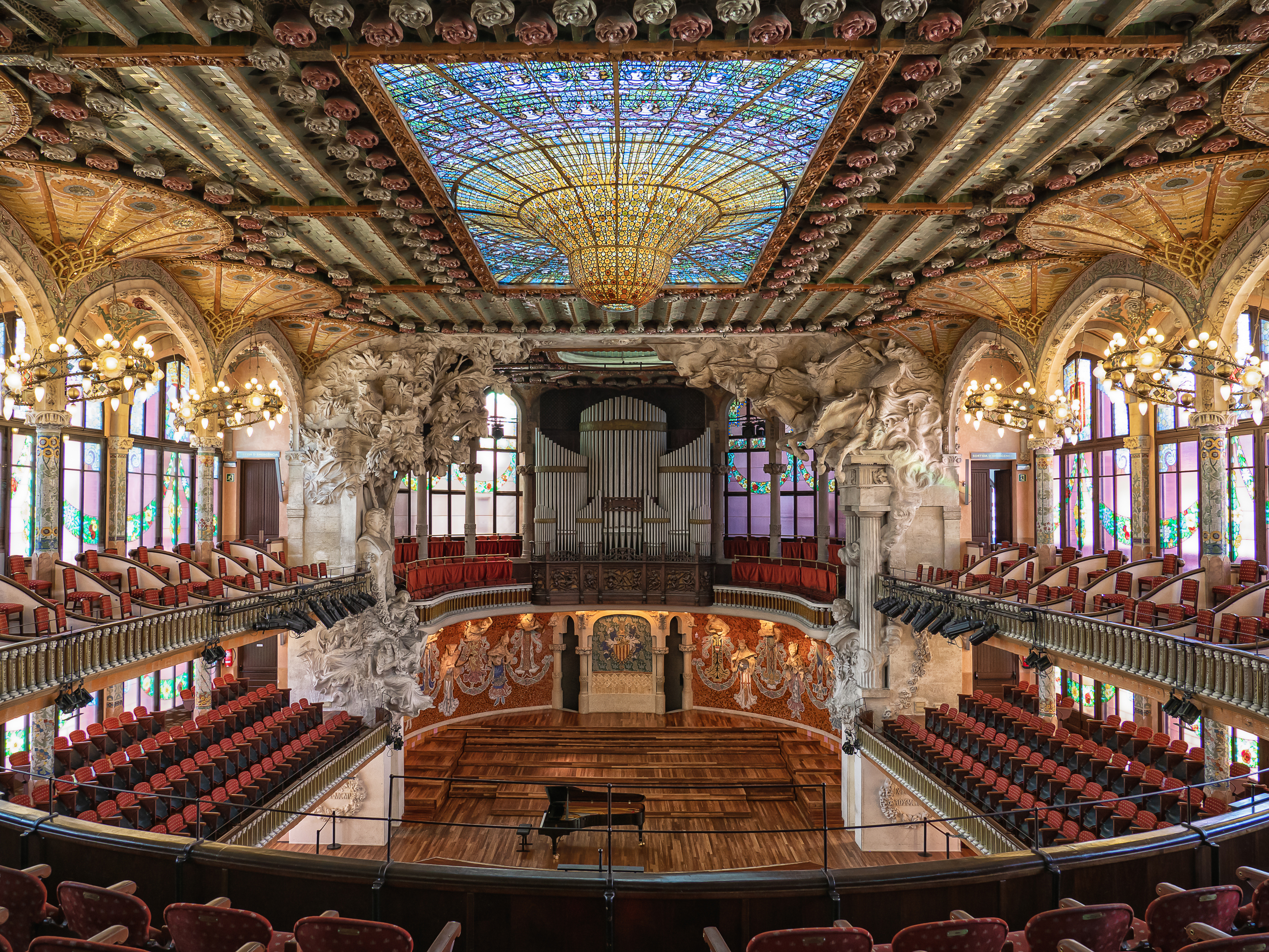 Palace of Catalan Music, in Barcelona